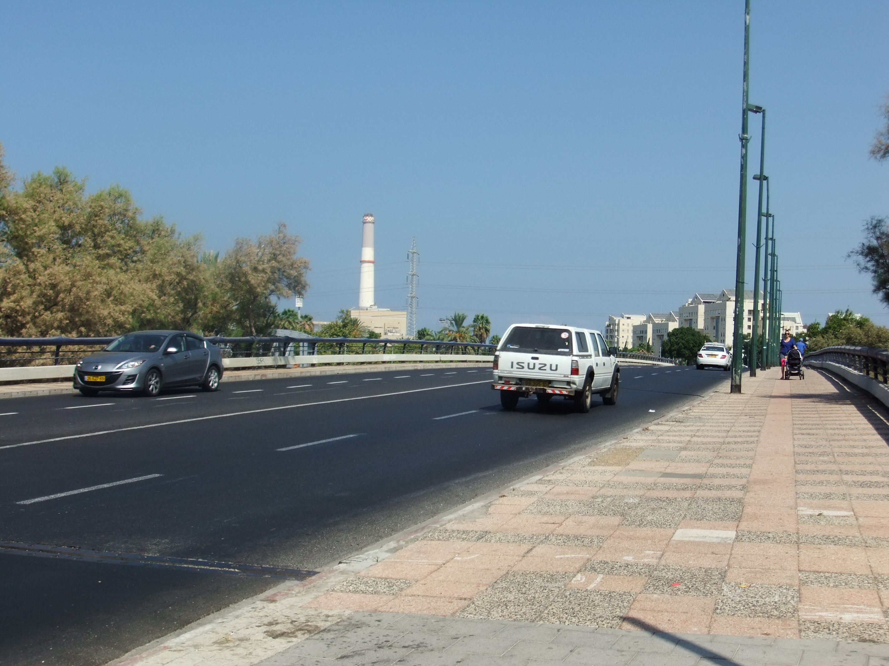 Bar-Yehuda bridge from the south